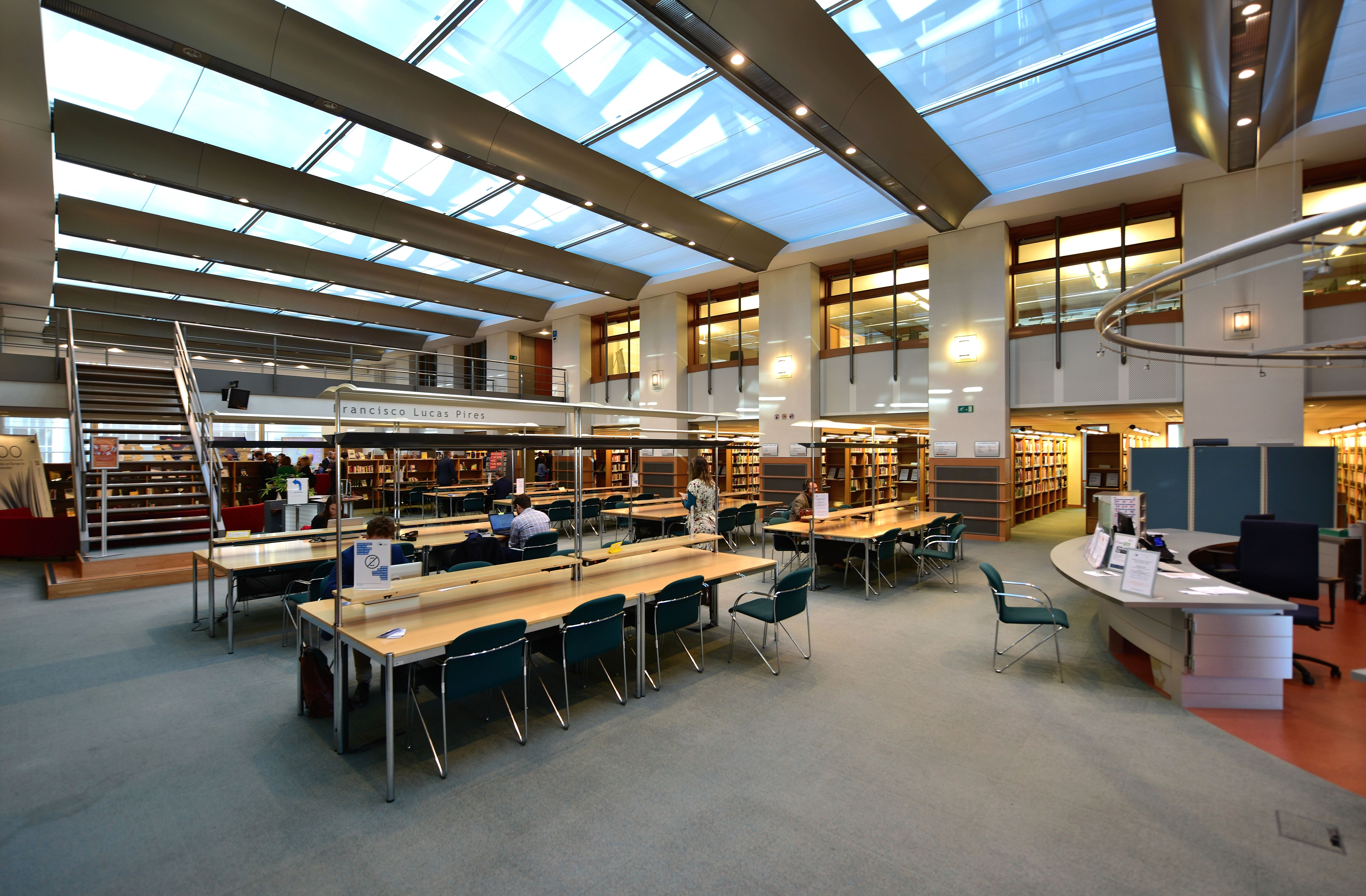 European Parliament Library in Brussels